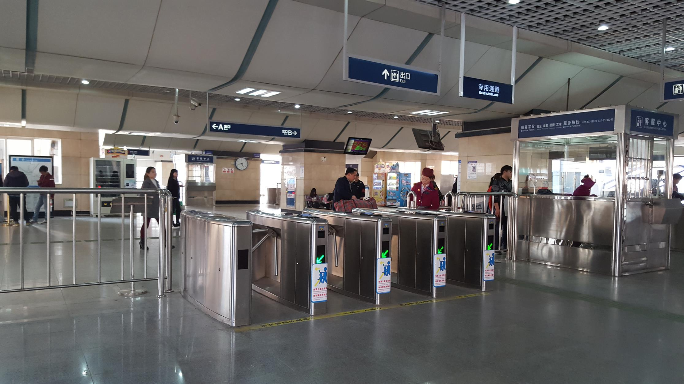 Concourse of Youyi Road Station, Wuhan Metro